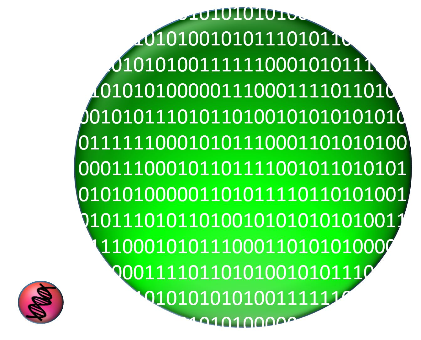 Information potentially available for recombination in digital information (5x10^21) and human genome information (10^19)